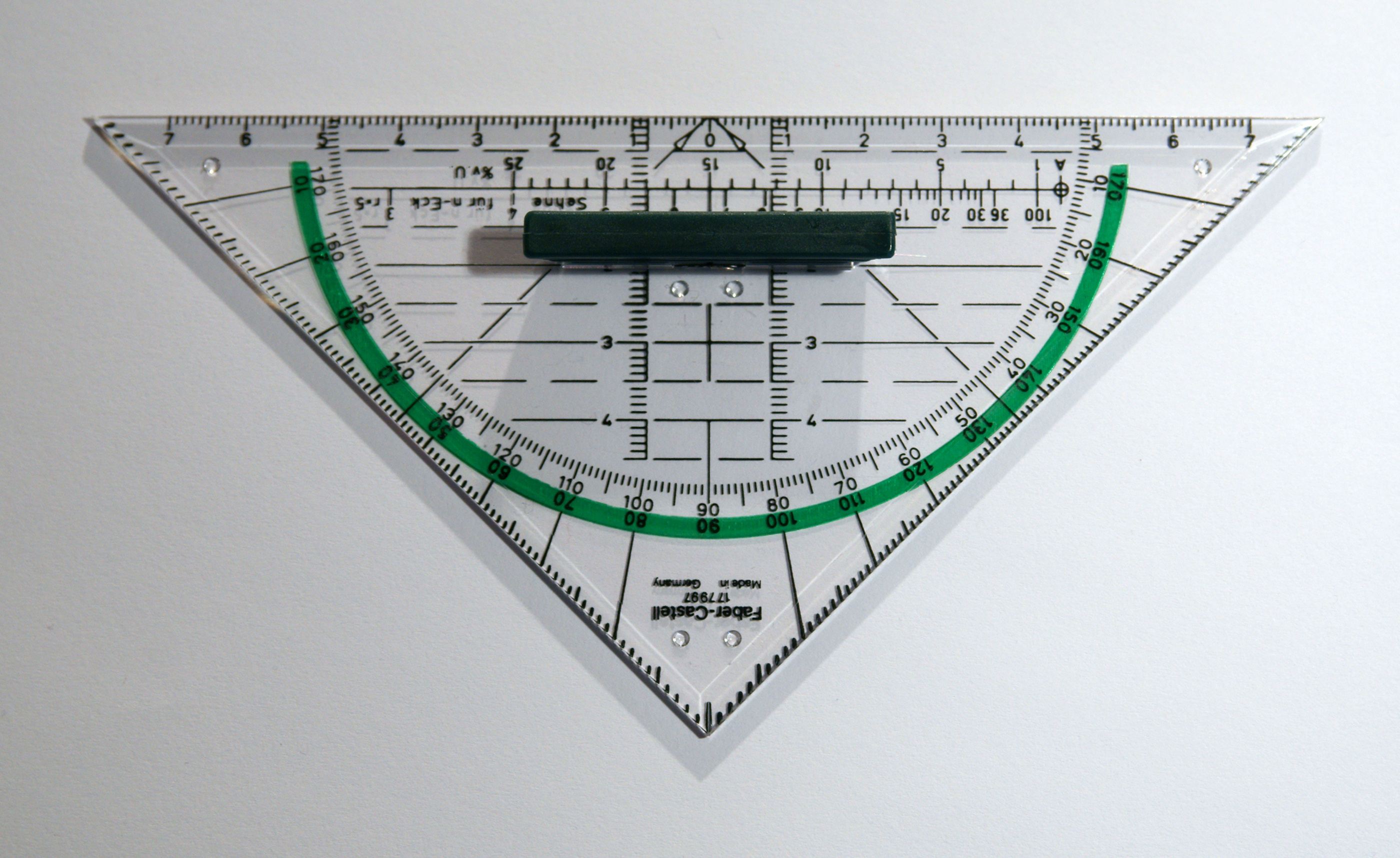 Set square.